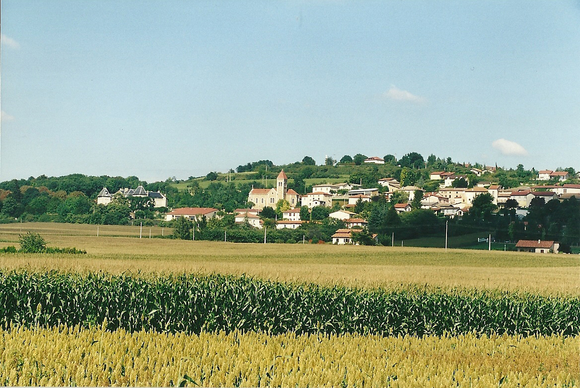 General view; see the madonna on the hill